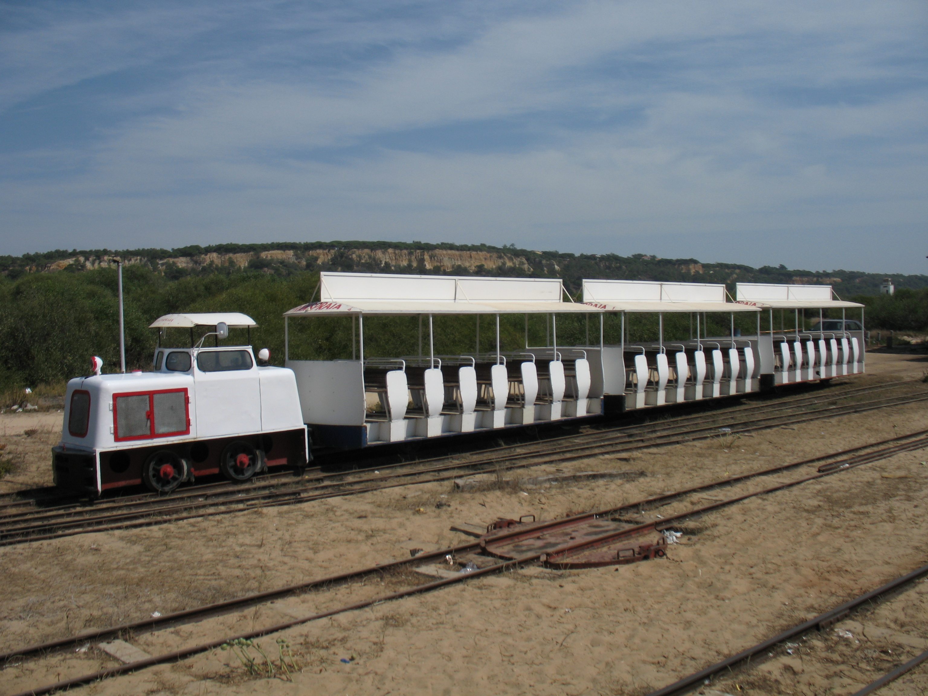 Train on the Trans-Praia narrow-guage line at Caparica.